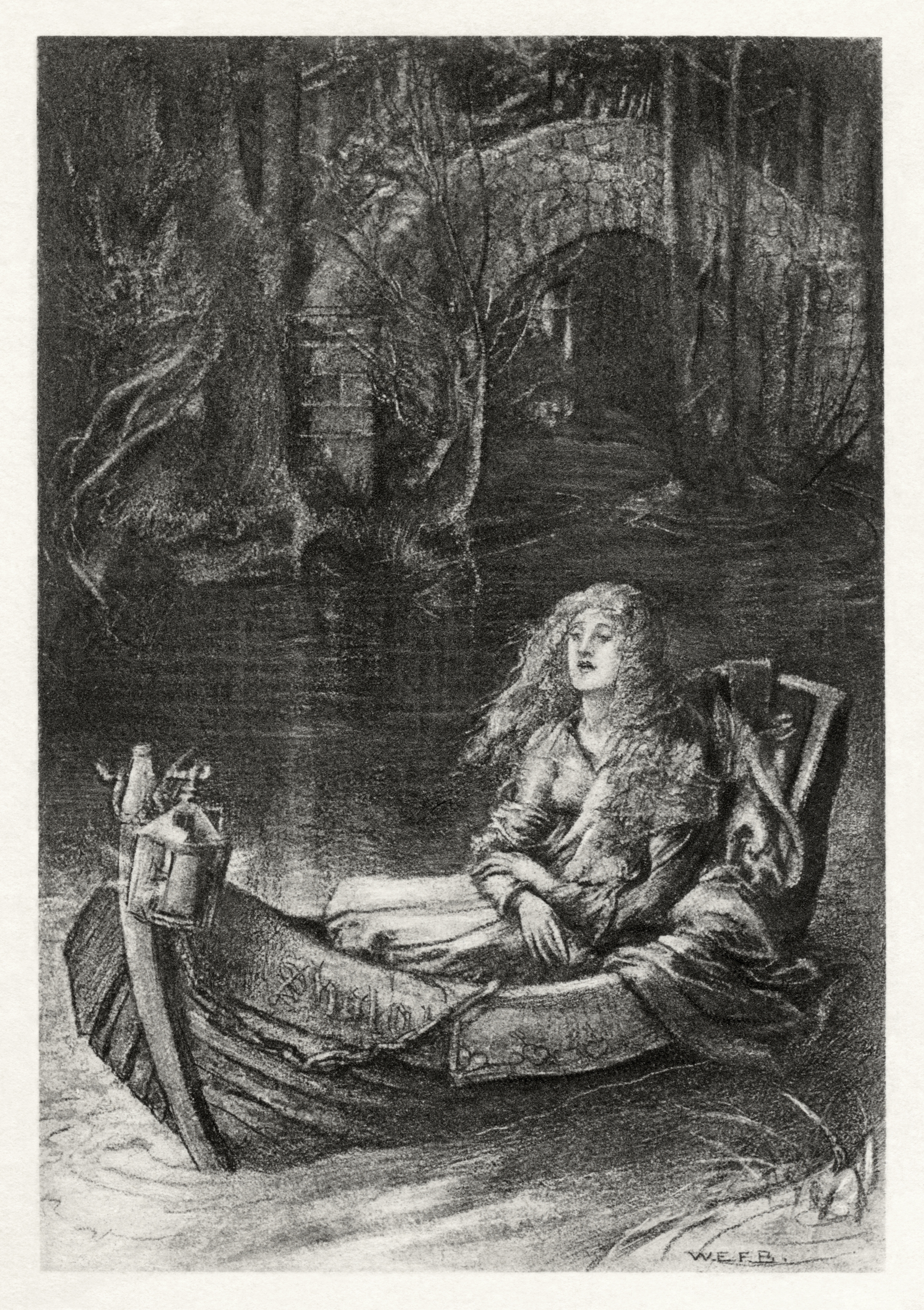 Illustration to Tennyson's "The Lady of Shalott" by W. E. F. Britten. "Heard a carol, mournful, holy, Chanted loudly, chanted lowly, Till her blood was frozen slowly, And her eyes were darken'd wholly, Turn's to tower'd Camelot"